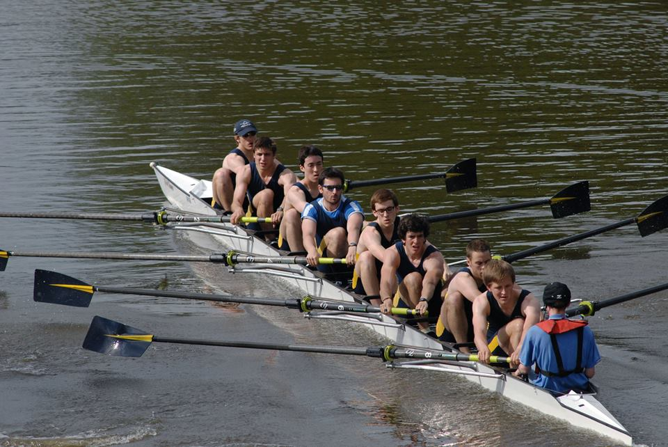 Lmh 2009 rowing eight